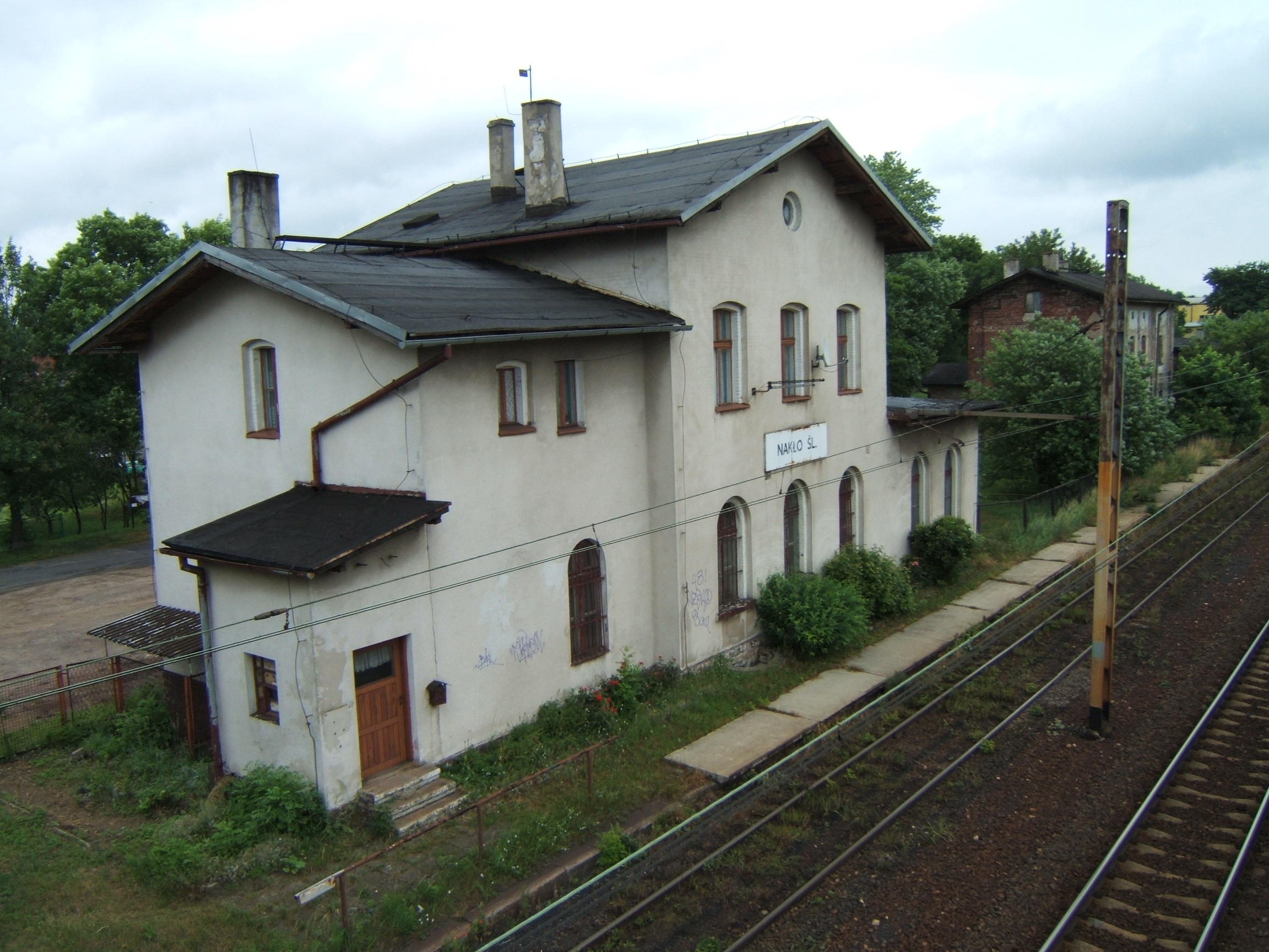 Railway station in Nakło Śląskie, Poland.